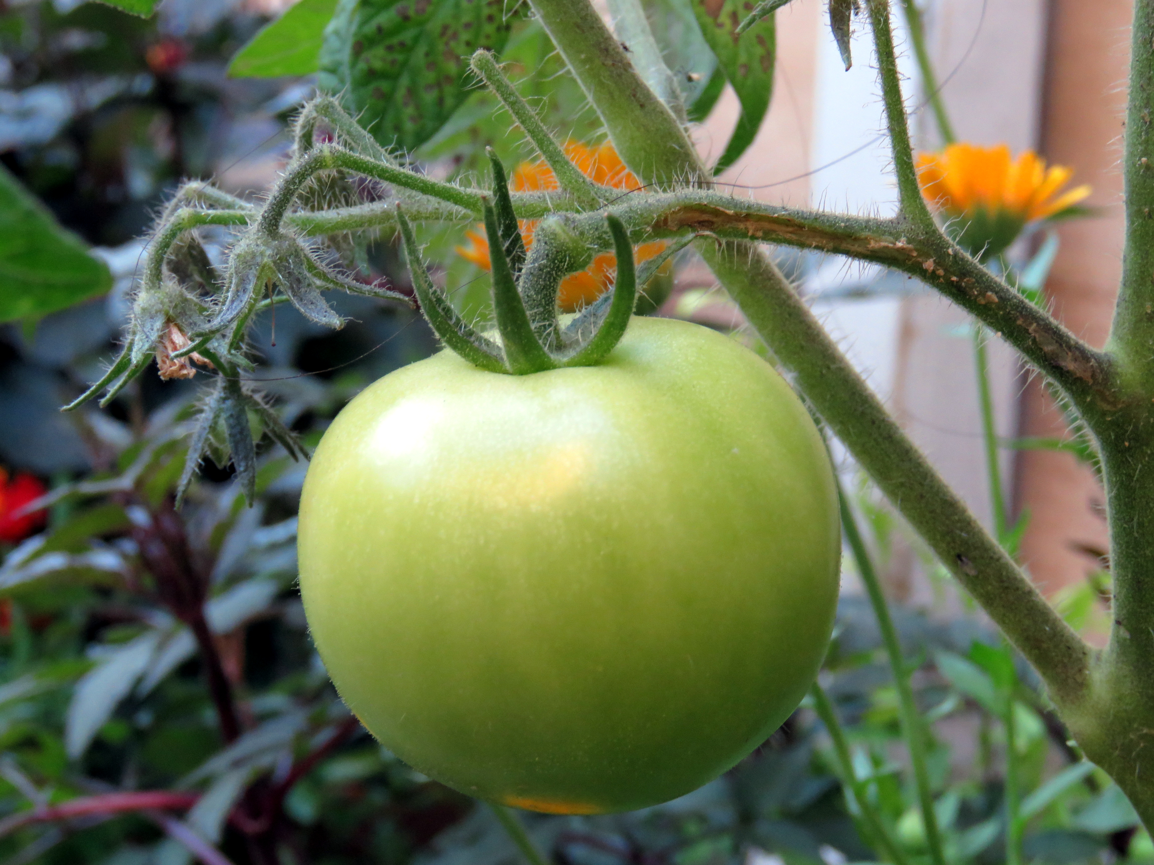 An unripe tomato, growing in a garden, Oxford, UK.